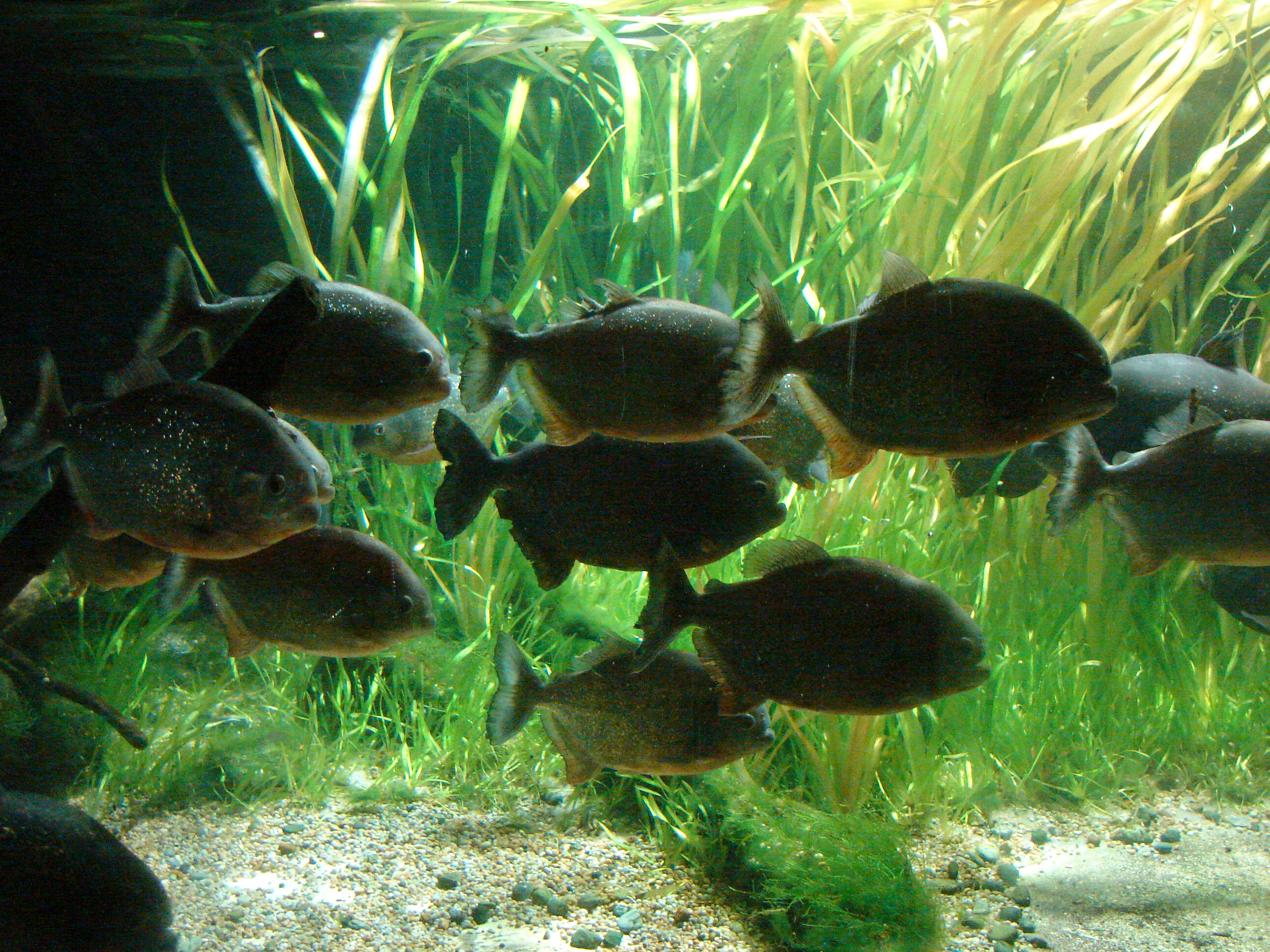 Images from London Zoo. Location: NW1 4RY